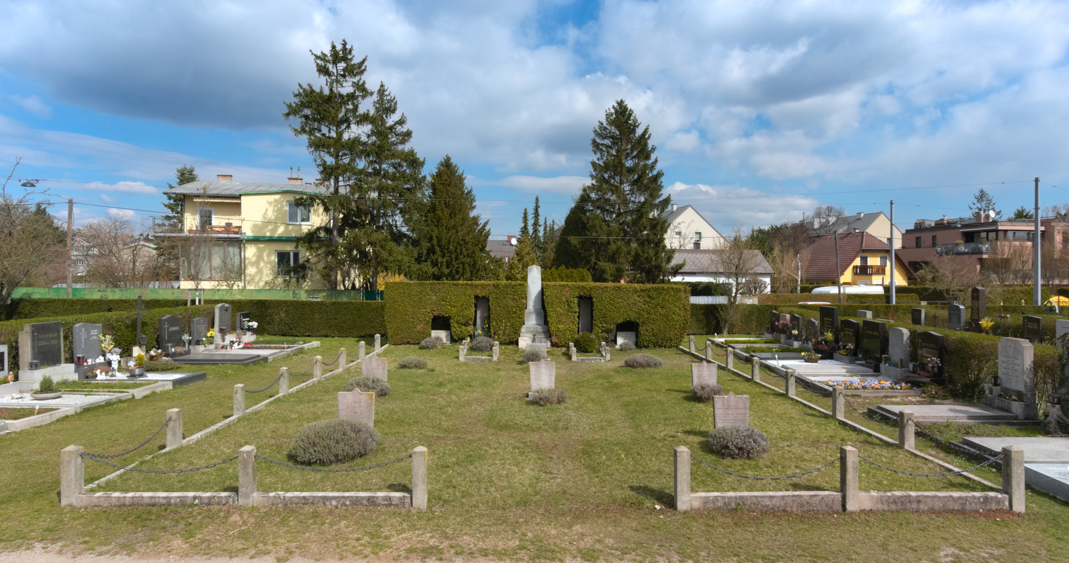 The cemetry for the fallen russian soldiers of the second world war on the cemetery Rodaun in Vienna, Austria